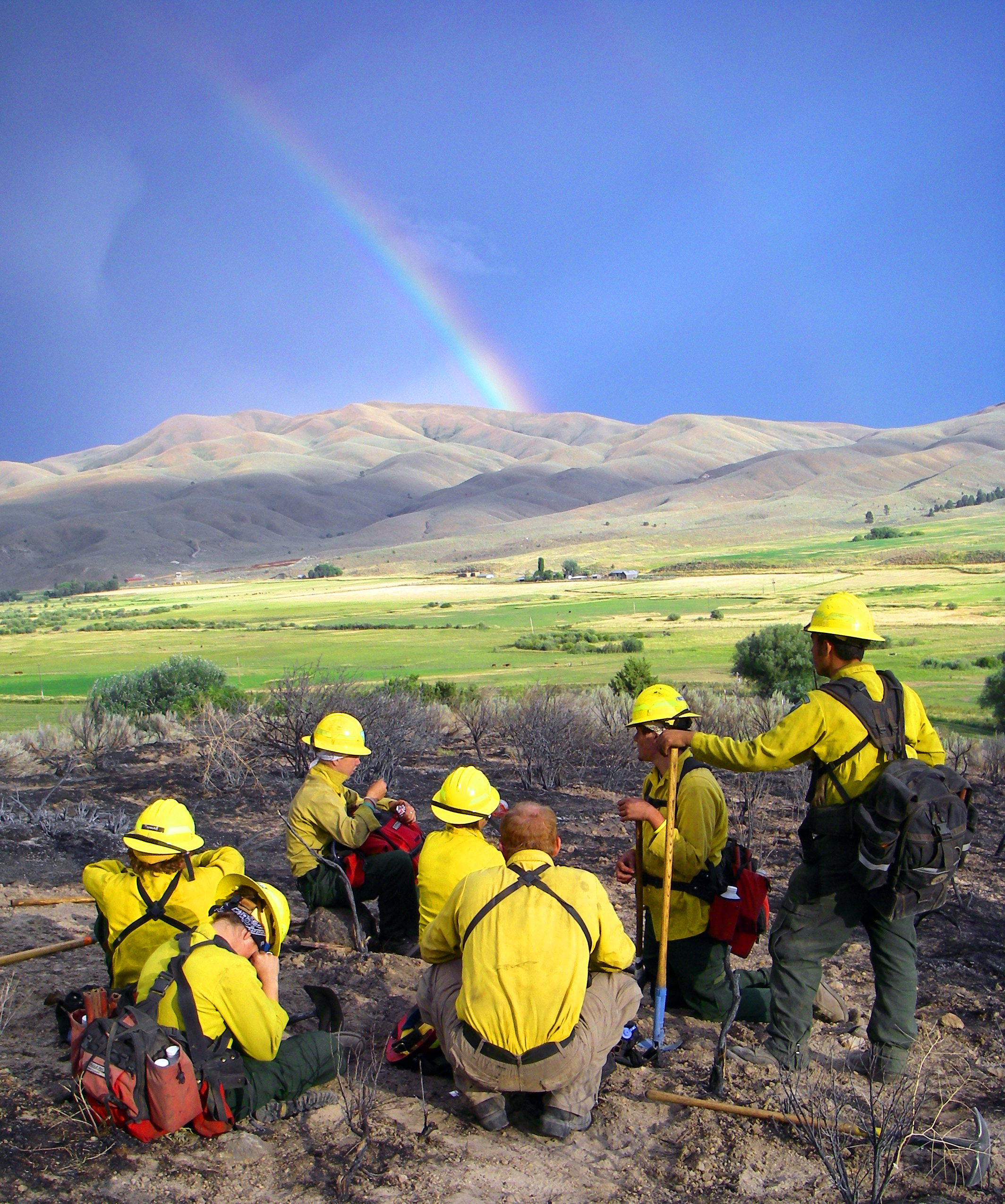 This photo was the first place winner of the Fire Category from the Oregon BLM's 2008 Photo Contest. Photographer J.T. Sohr, an Engine Boss with six summer’s experience fighting fires, snapped this shot while his fatigued crew was taking a well-deserved break. “We’d just finished a long period of putting out fires and saw some more storms on the way,” said J.T. “Everybody knew we’d be busy, so I took this photo of us taking a breather. It was the calm before the storm.” Right after this photo, J.T. and his crew got up and went back to work. “Hey, you’ve got to respond to the fires. And we all worked together and took care of them.” When asked how the rainbow affected their mood, J.T. laughs, “That wasn’t usual. We’d never seen a rainbow that strong. And I can tell you we all appreciated it that day.”